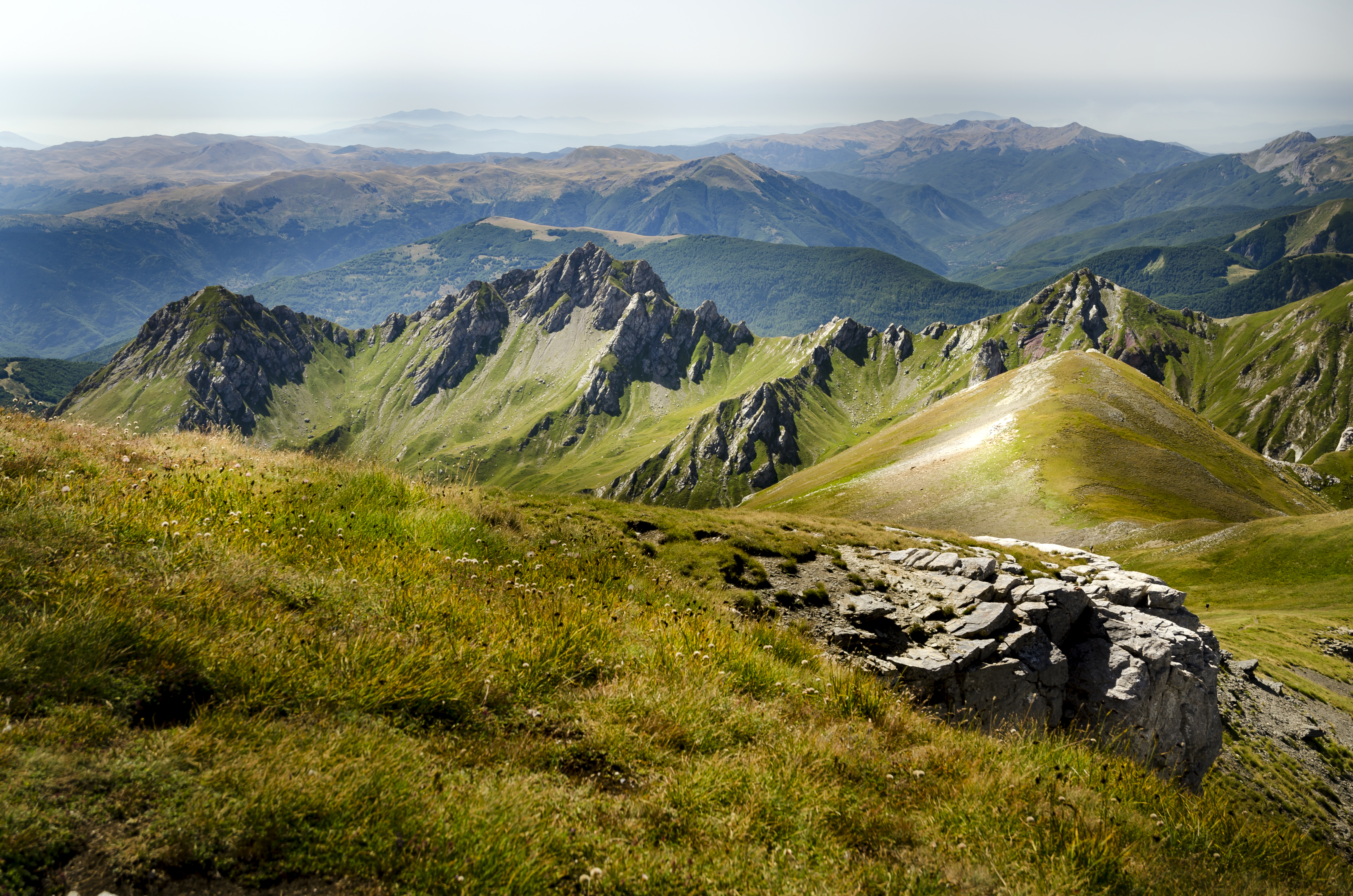 Mali Korab and Korabska Vrata, Korab mountain range, Macedonia